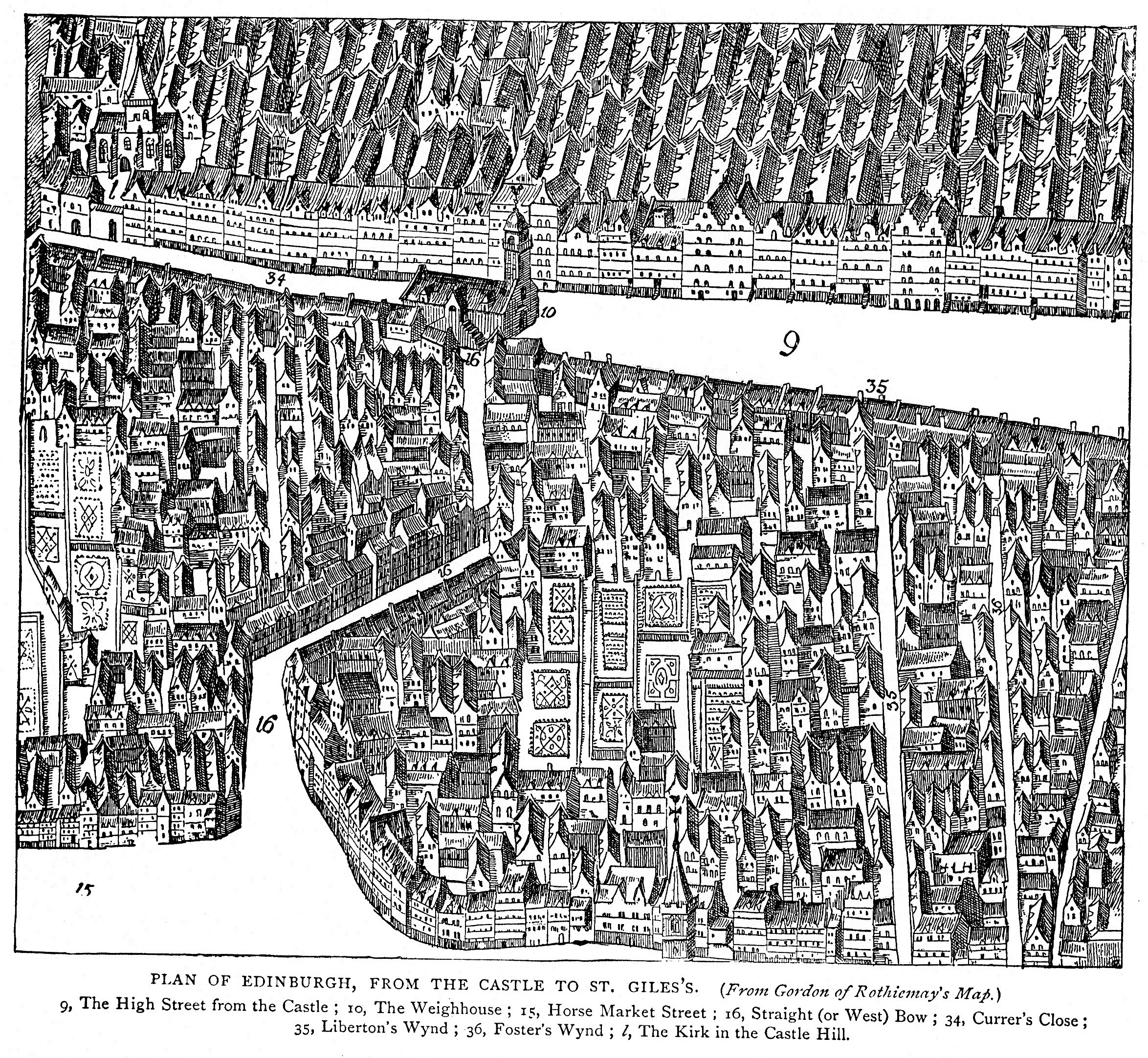 from James Grant's Old And New Edinburgh (1880), based on Gordon of Rothiemay's map (1647)